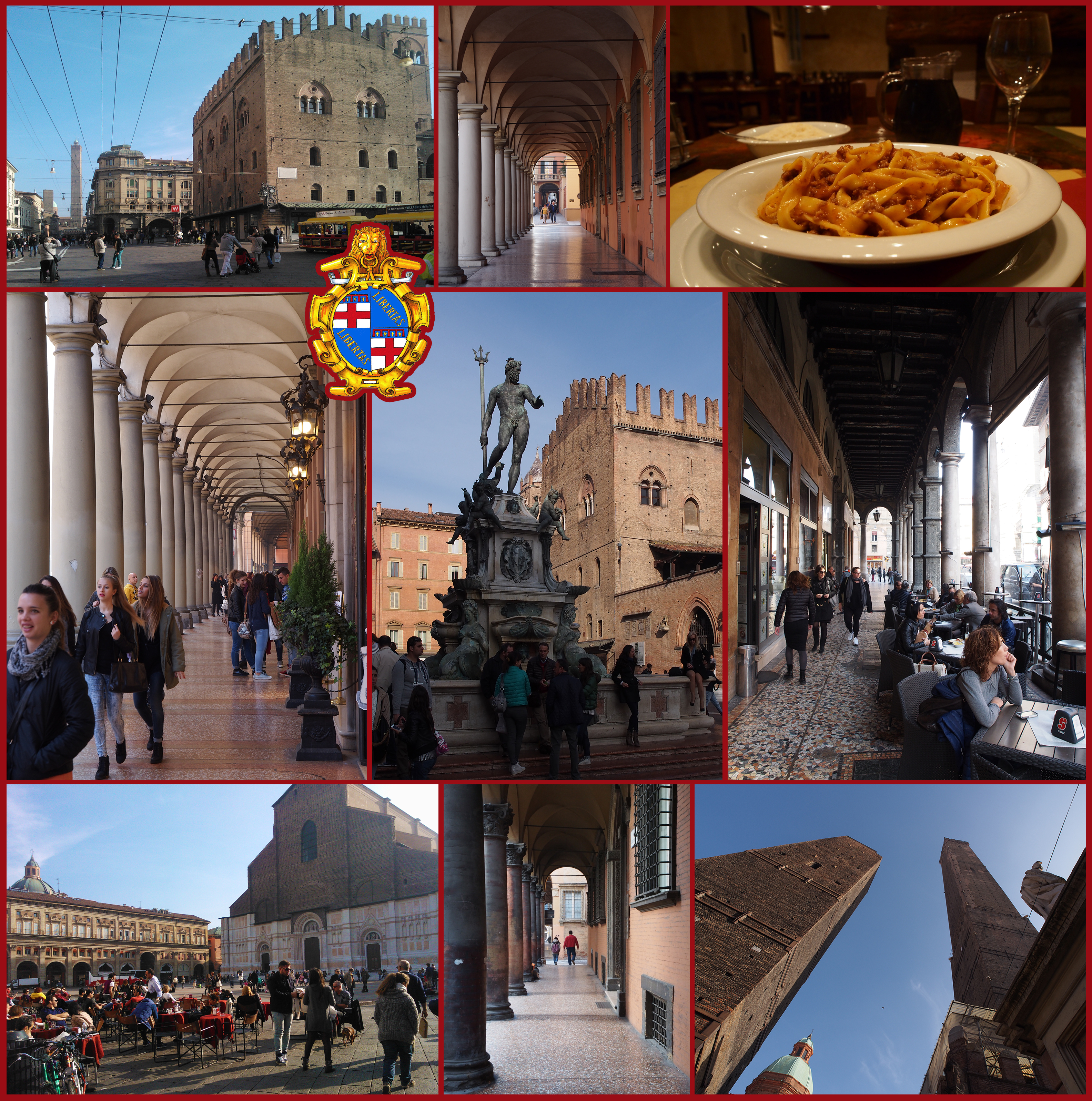 Bologna postcard. Italy.